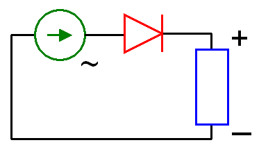 Single diode as a half-wave rectifier.